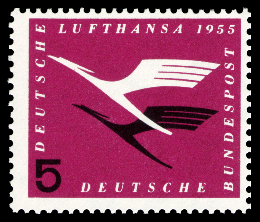 stamp for the first flight of the German Lufthansa Graphics by Müller und Blase Ausgabepreis: 5 Pfennig First Day of Issue / Erstausgabetag: 31. März 1955 Michel-Katalog-Nr: 205